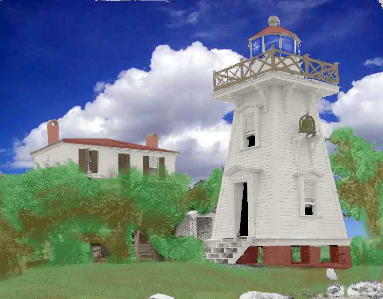 Work created from two images: Jordan Point Light.PNG an out-of-copyright 1885 photograph. Cumulus clouds in fair weather.jpeg by Michael Jastremski, on Wikimedia Commons via CC2.0. Colorization is mine. It is loose because its purpose was to add color to a thumbnail. It is based on the color scheme in the postcard of Jordan Point Lighthouse in the Tichnor Brothers Post Card Collection from Digital Commonwealth: Massachusetts Collections Online.